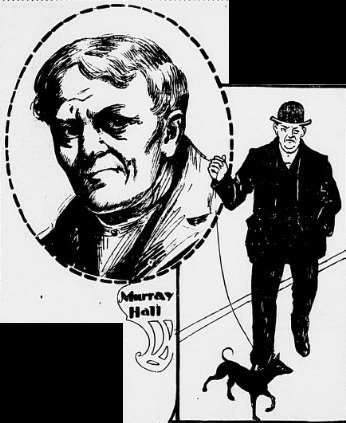 Depictions of Murray Hall in The Evening World - 1901-01-18 - Night Edition - page 3